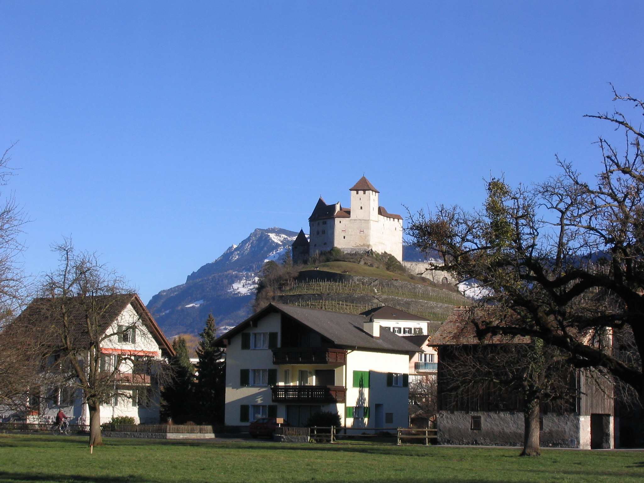 This is a view of Gutenberg Castle (also known as Balzers Castle). The castle sits on a rise in the town of Balzers in the Principality of Liechtenstein.